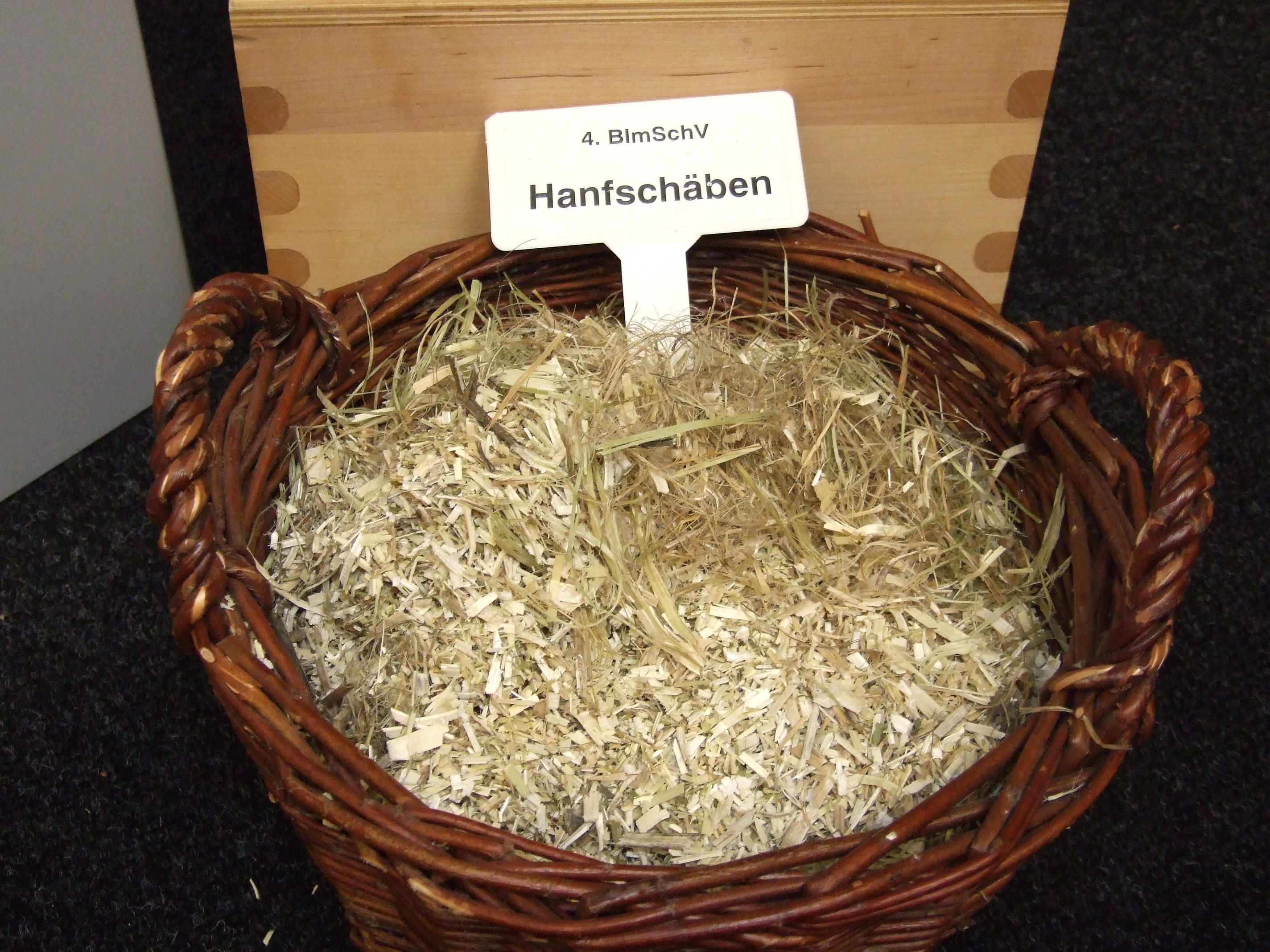 Hemp hurds in a wicker basket with a German language label reading "Hanfschäben”